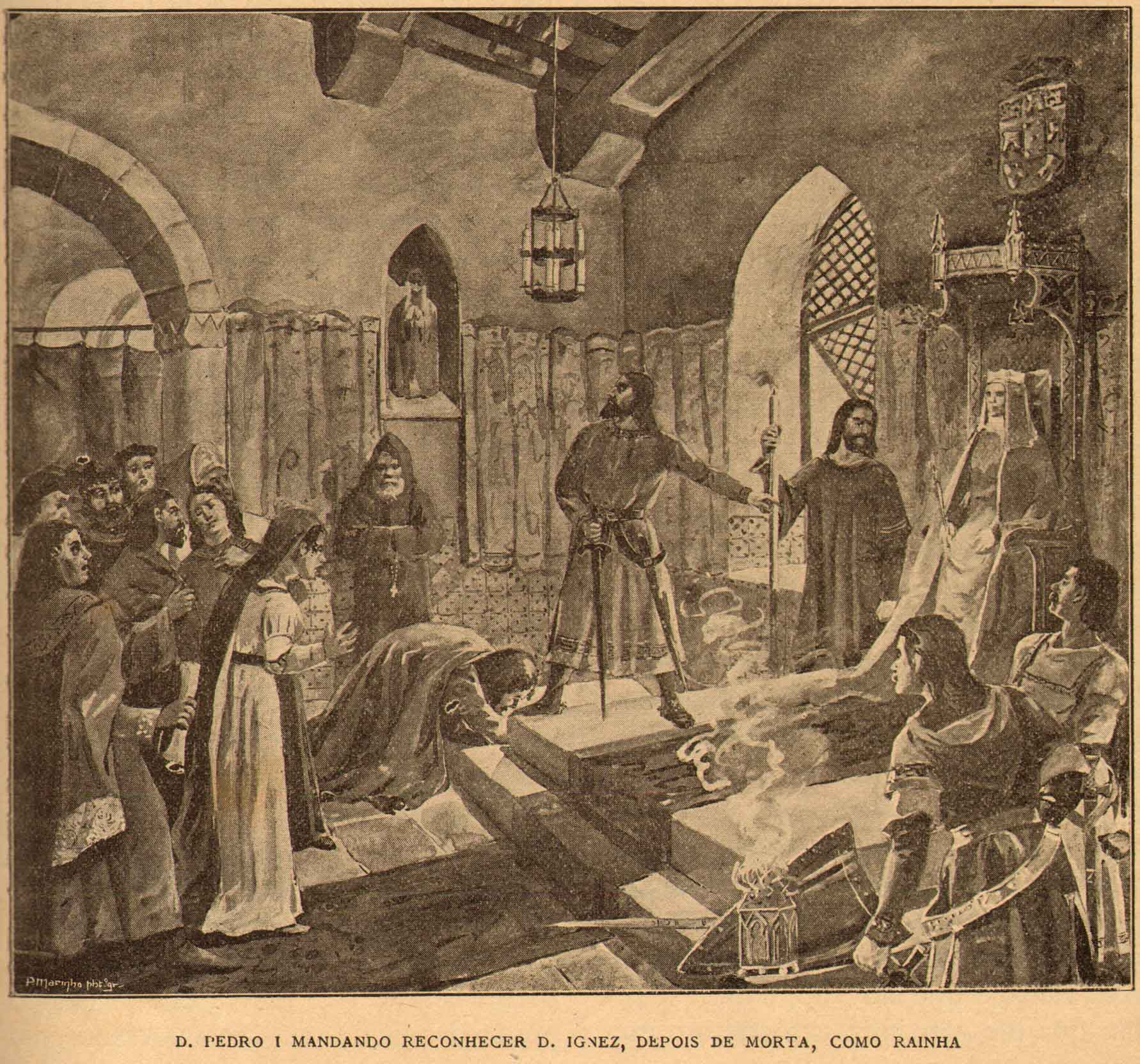 Illustration by Alfredo Roque Gameiro in the book História de Portugal, popular e ilustrada, by Manuel Pinheiro Chagas